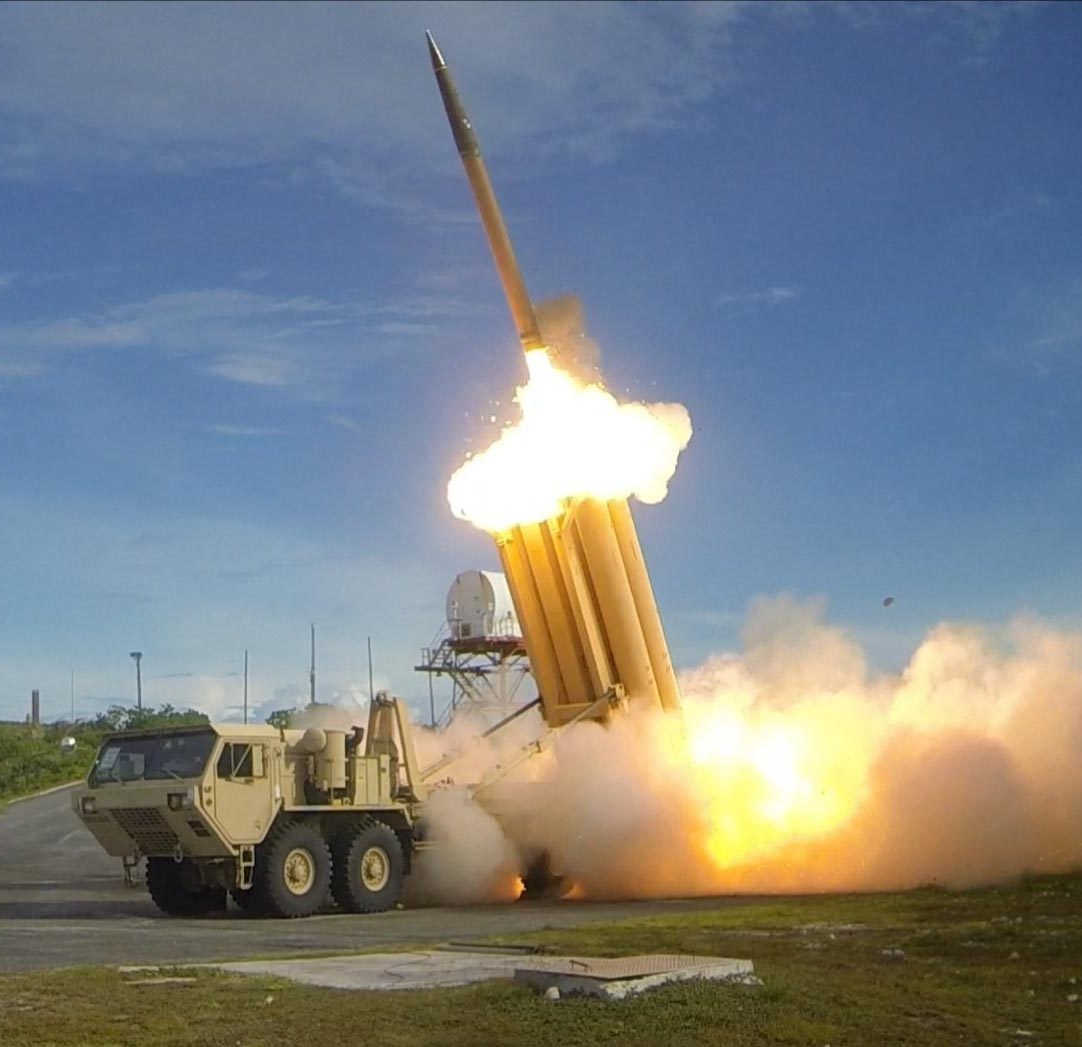 Terminal High Altitude Area Defense (THAAD)